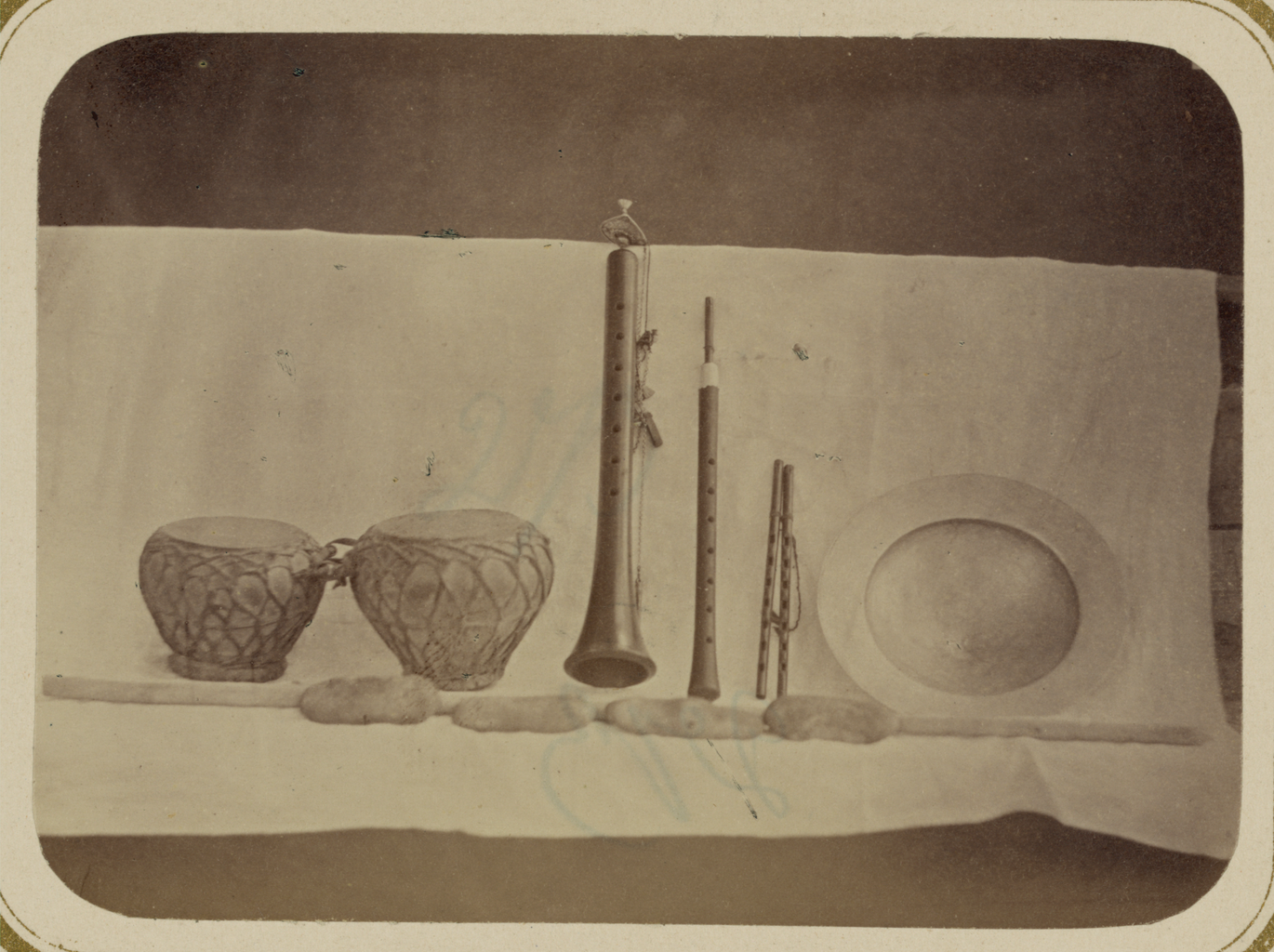 This photograph is from the ethnographical part of Turkestan Album, a comprehensive visual survey of Central Asia undertaken after imperial Russia assumed control of the region in the 1860s. Commissioned by General Konstantin Petrovich von Kaufman (1818–82), the first governor-general of Russian Turkestan, the album is in four parts spanning six volumes: “Archaeological Part” (two volumes); “Ethnographic Part” (two volumes); “Trades Part” (one volume); and “Historical Part” (one volume). The principal compiler was Russian Orientalist Aleksandr L. Kun, who was assisted by Nikolai V. Bogaevskii. The album contains some 1,200 photographs, along with architectural plans, watercolor drawings, and maps. The “Ethnographic Part” includes 491 individual photographs on 163 plates. The photographs show individuals representing the different peoples of the region (Plates 1–33); daily life and rituals (Plates 34–91); and views of villages and cities, street vendors, and commercial activities (Plates 92–163). Drums; Ethnographic photographs; Musical instruments; Photographic surveys; Turkic peoples